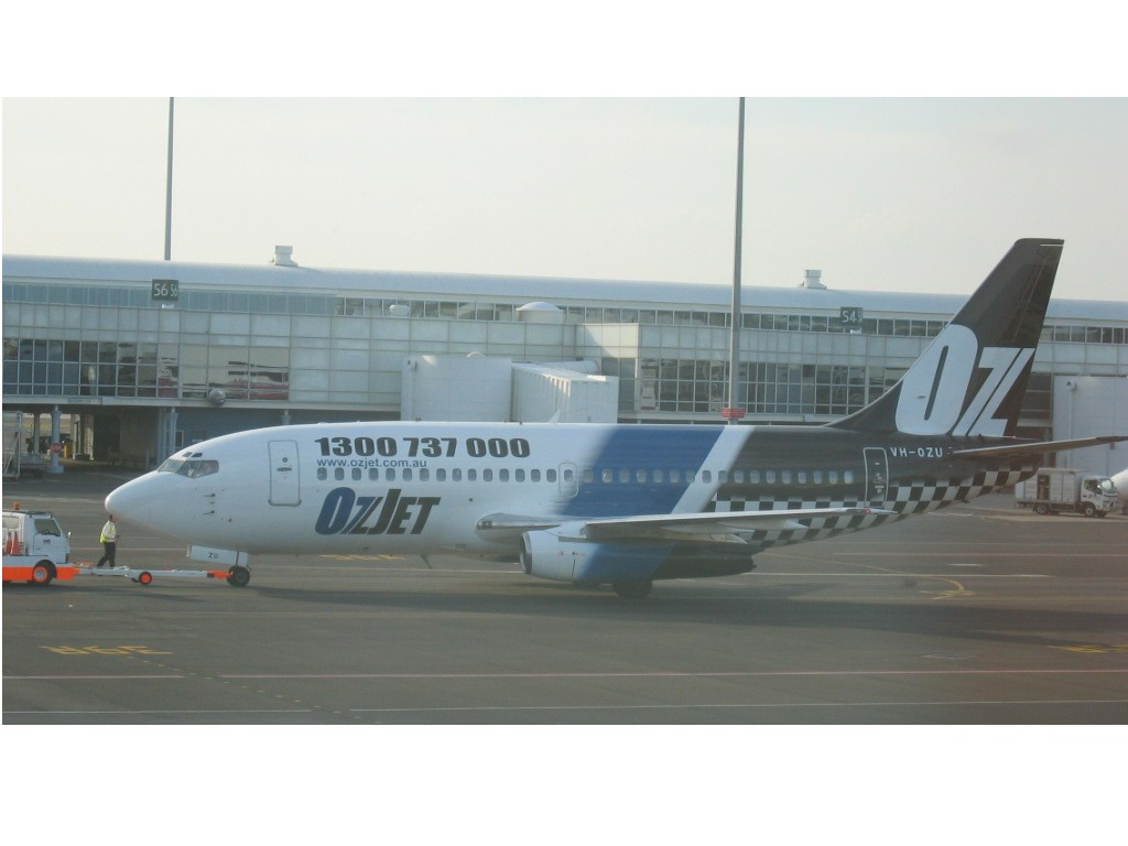 OzJet Boeing 737-200 sporting motor racing livery at Sydney Kingsford Smith Airport on 23 December 2005. Photo taken by User:Adz.